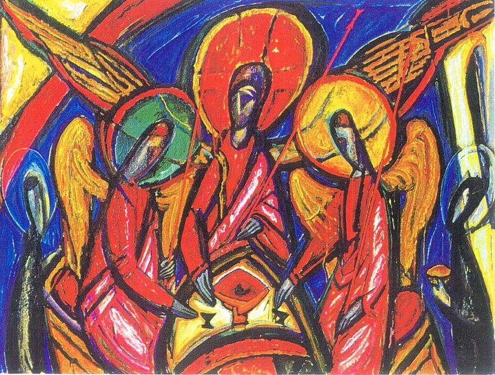 Alek Rapoport. Trinity in Dark Tones (Genesis 18), 1994. Tempera on cotton, 48 x 63”. Collection of the artist’s family, USA.